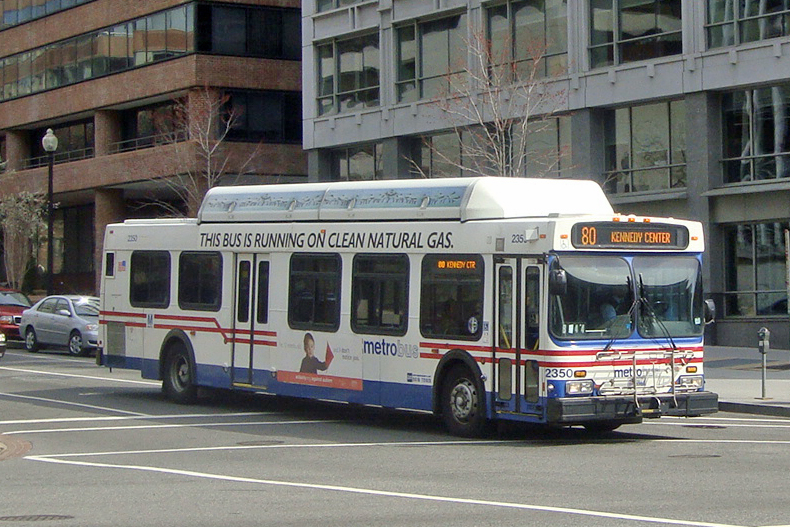 Washington, DC's Metrobus powered with compressed natural gas.